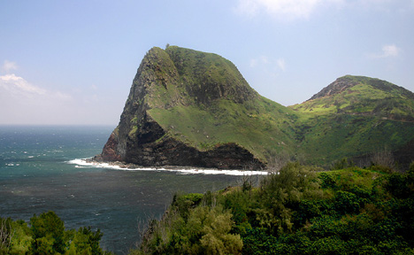 Photo of Kahakuloa Head, NW shore of Maui. Photo taken by me. Source URL